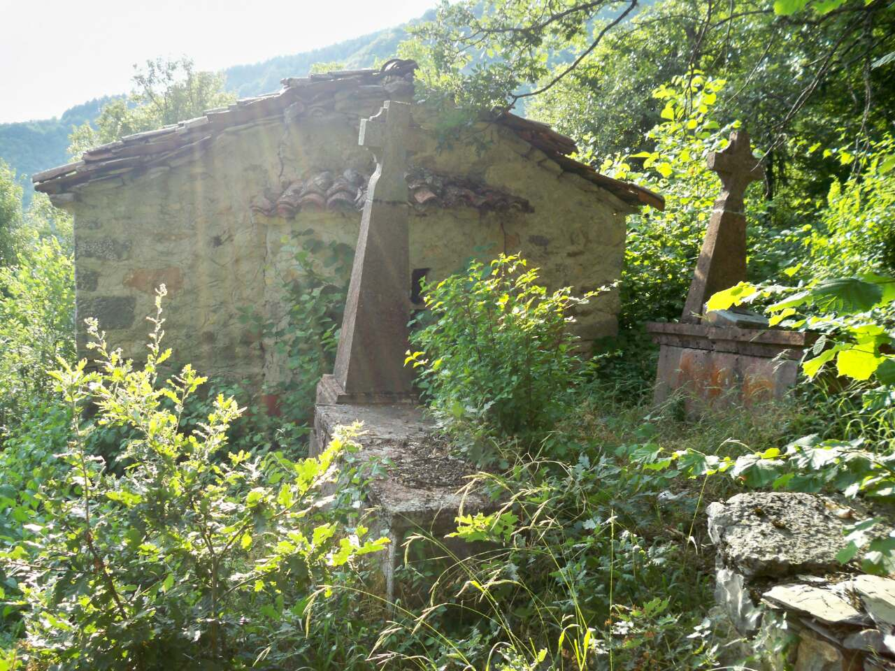 St. Athanasius Church (Selci)